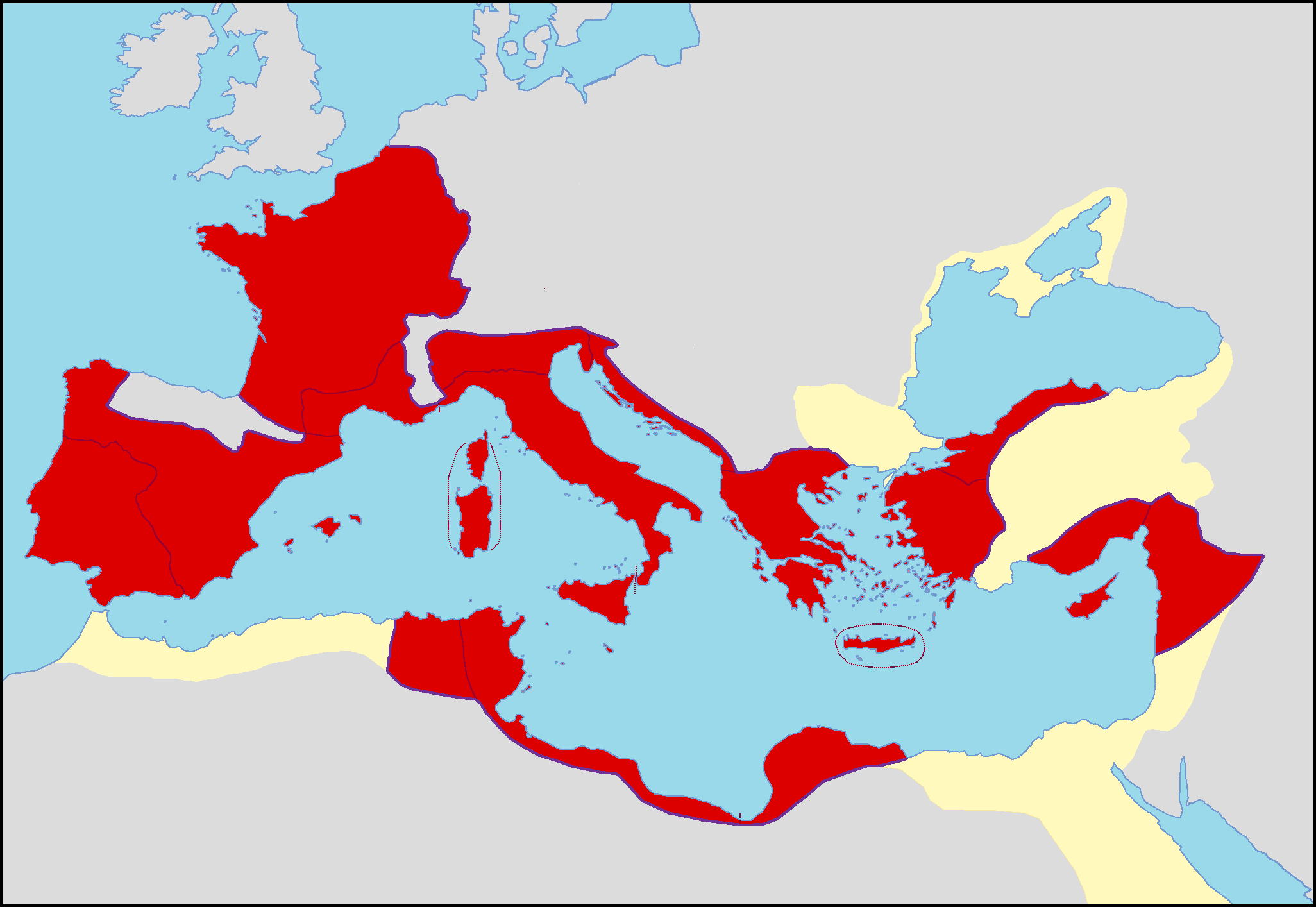 Map of the Roman Empire in 44 BC